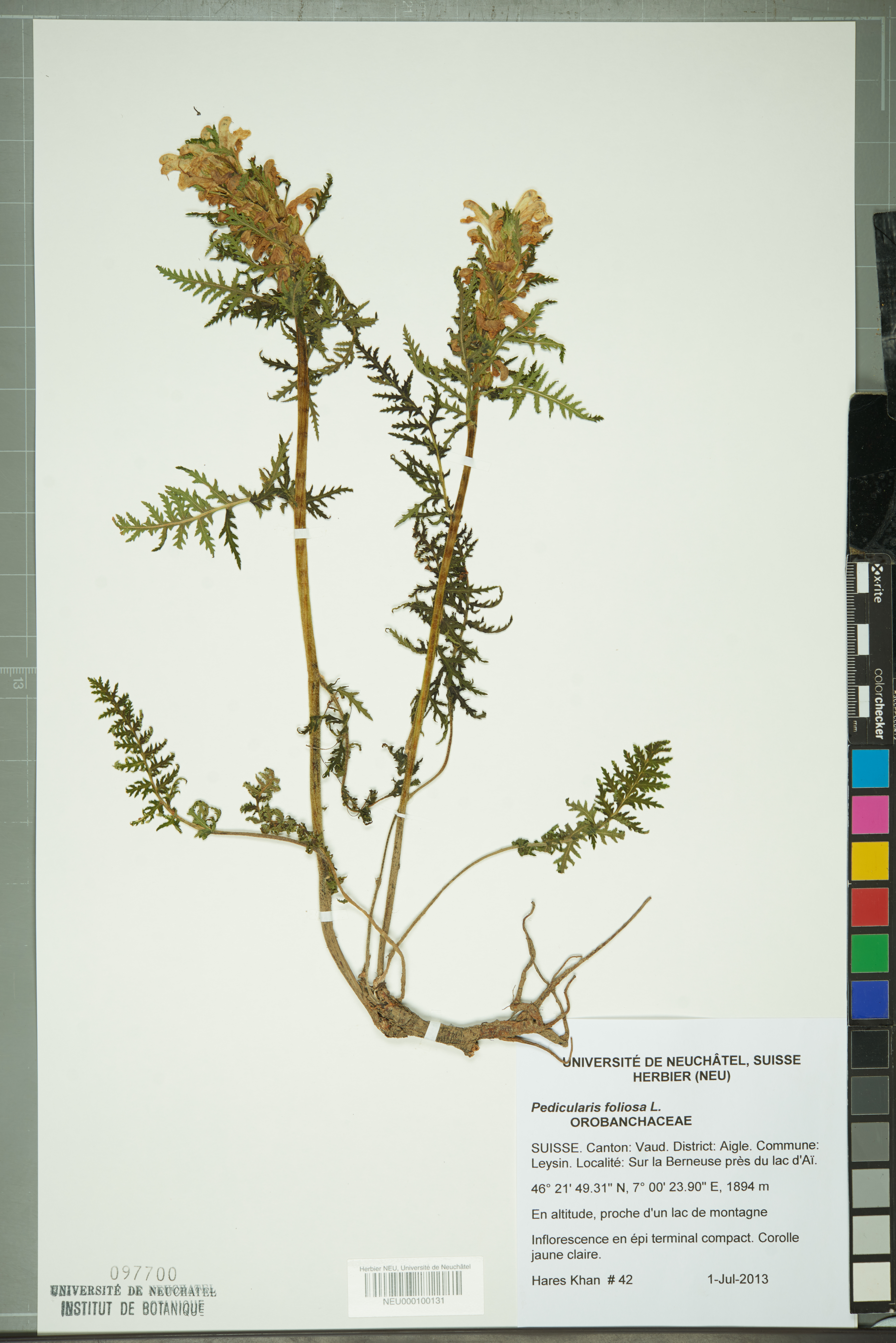 Dried pressed specimen of Pedicularis foliosa